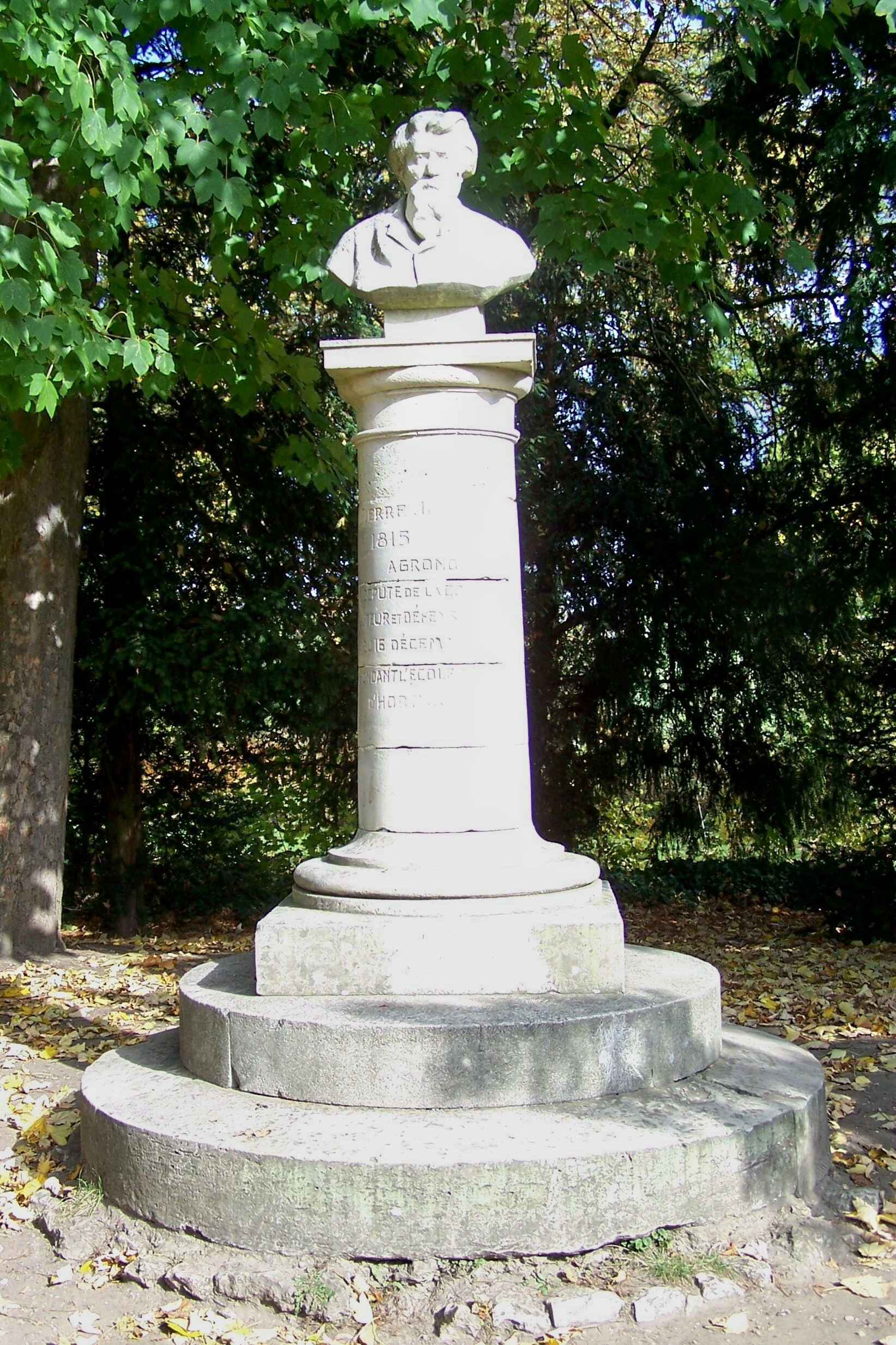 Memorial for Pierre Joigneaux in the park Balbi in Versailles (Yvelines, France)